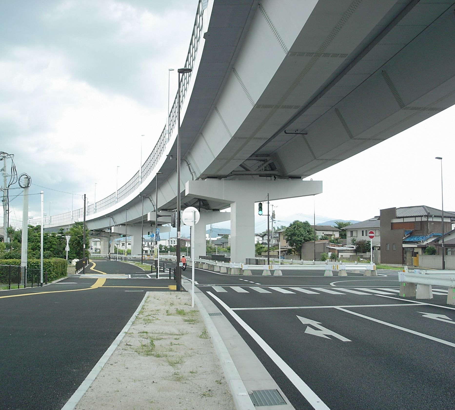 the Fukuoka Expway Route 5, with the Fukuoka Ring Road beneath it.